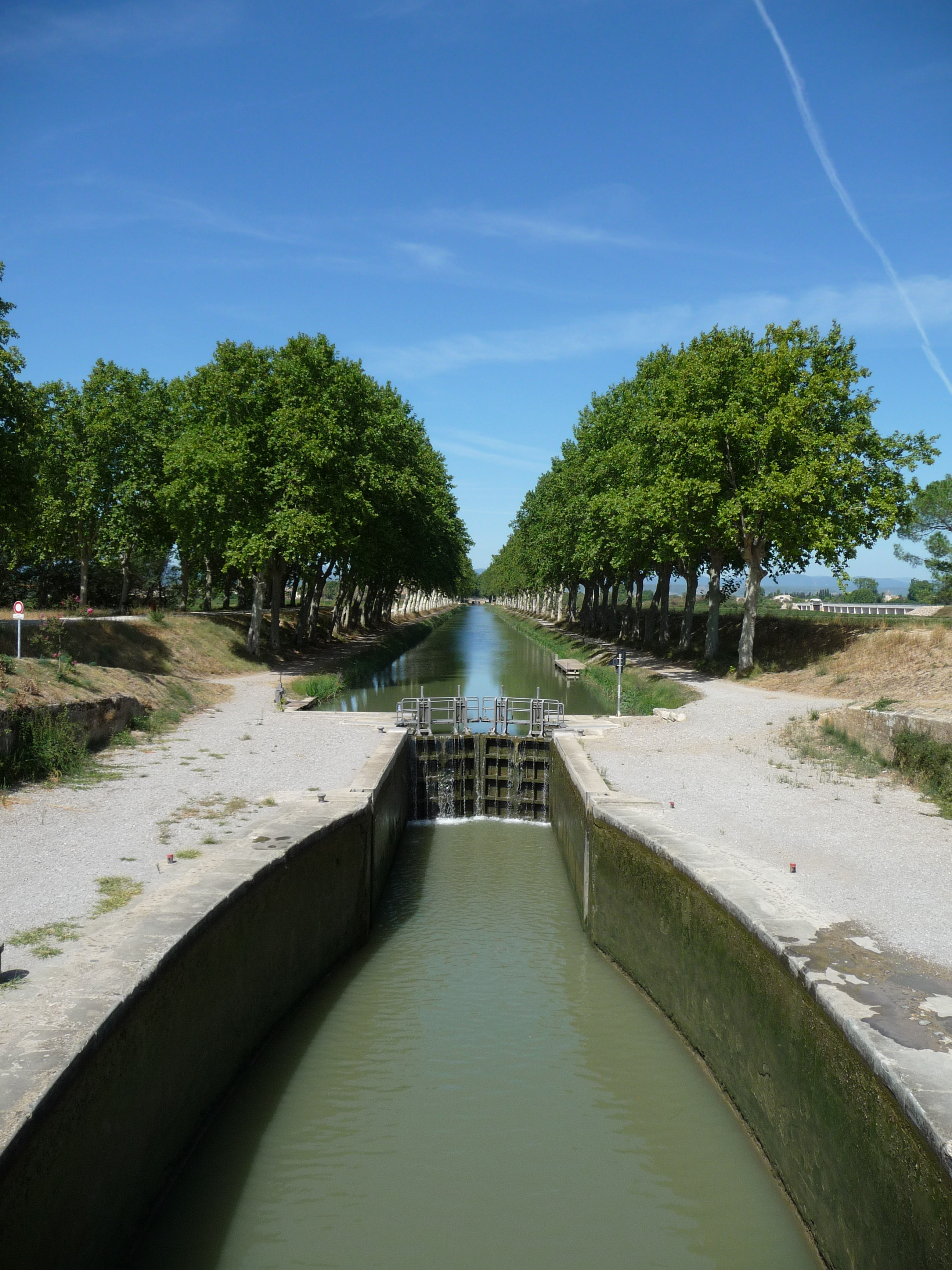 Gailhousty Lock on the Canal de Jonction looking inland towards Sallèles d'Aude